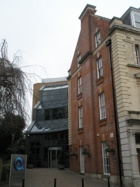 Quadrant in Windsor High Street